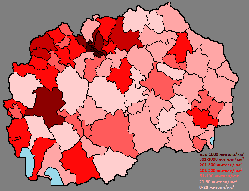 густина на населението според последниот попис/ density of population based on the last census